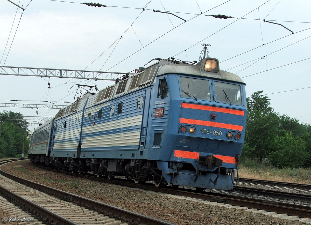 Electric locomotive ChS8